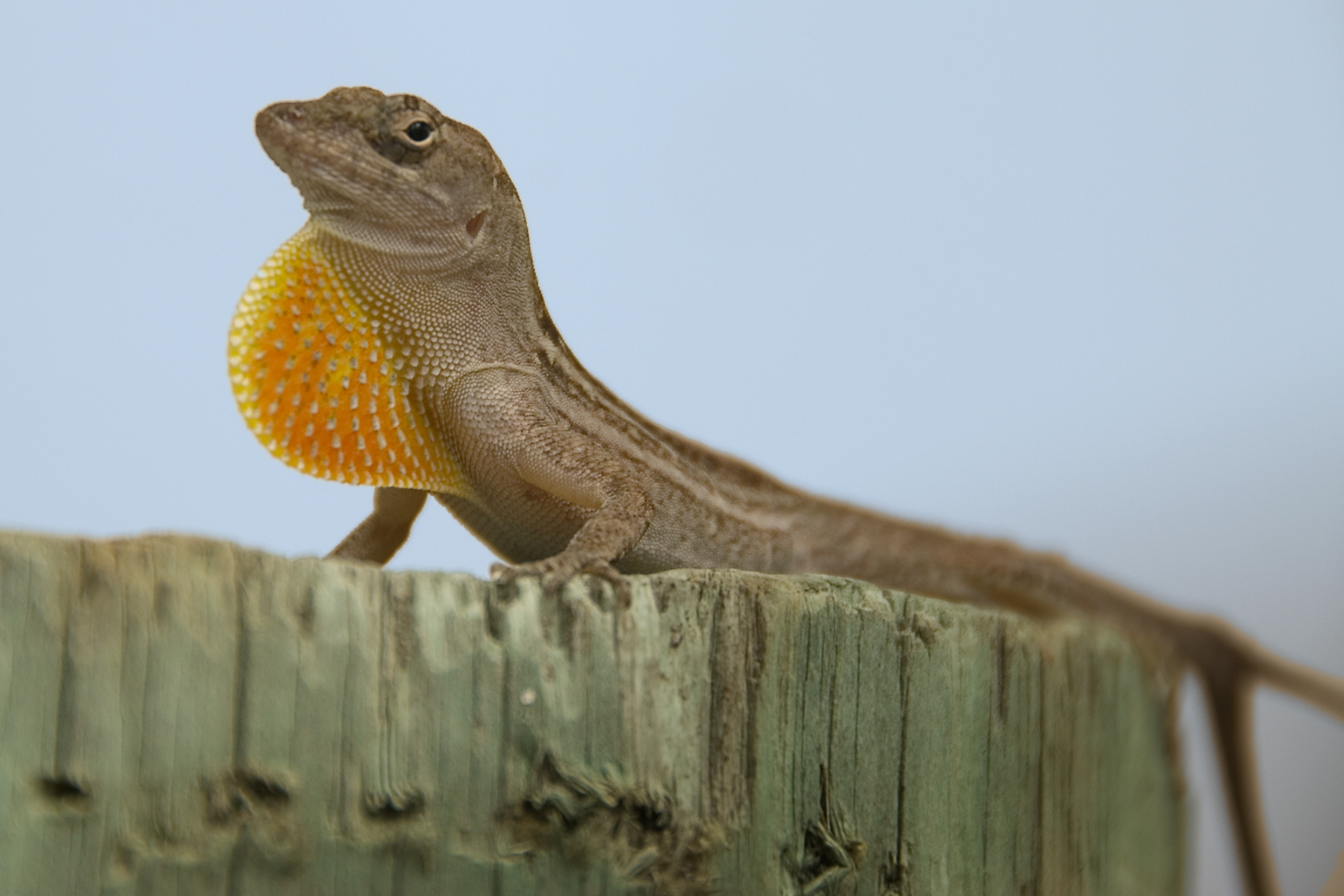 Florida Brown Anole with brightly colored folds of skin at the throat (dewlap) expanded during courtship and when threatened.